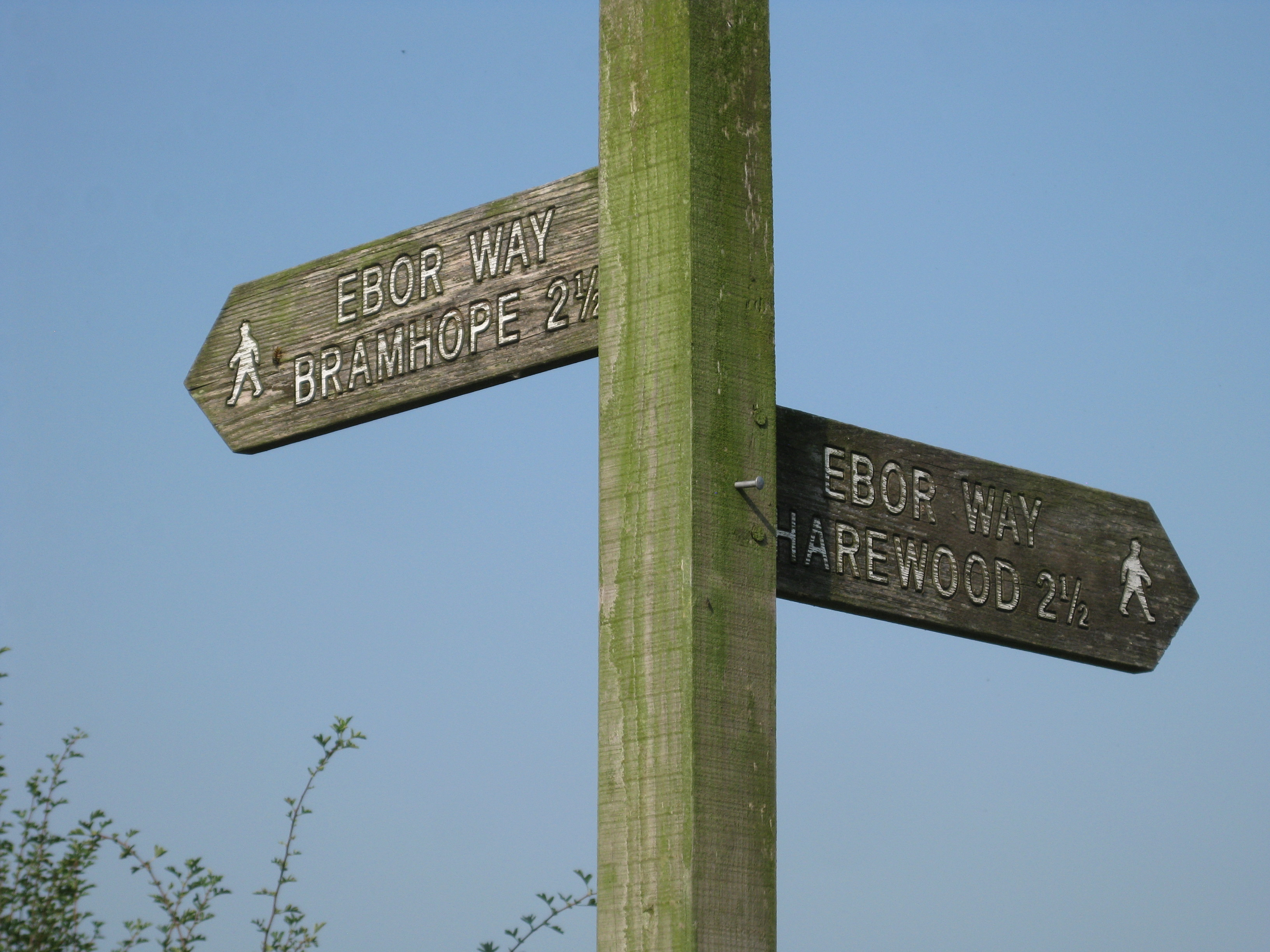 Footpath sign on junction of Eccup Lane and Bedlam Lane, north of the village of Eccup, Leeds, West Yorkshire.